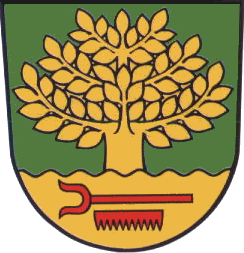 Coat of Arms of Helbedündorf